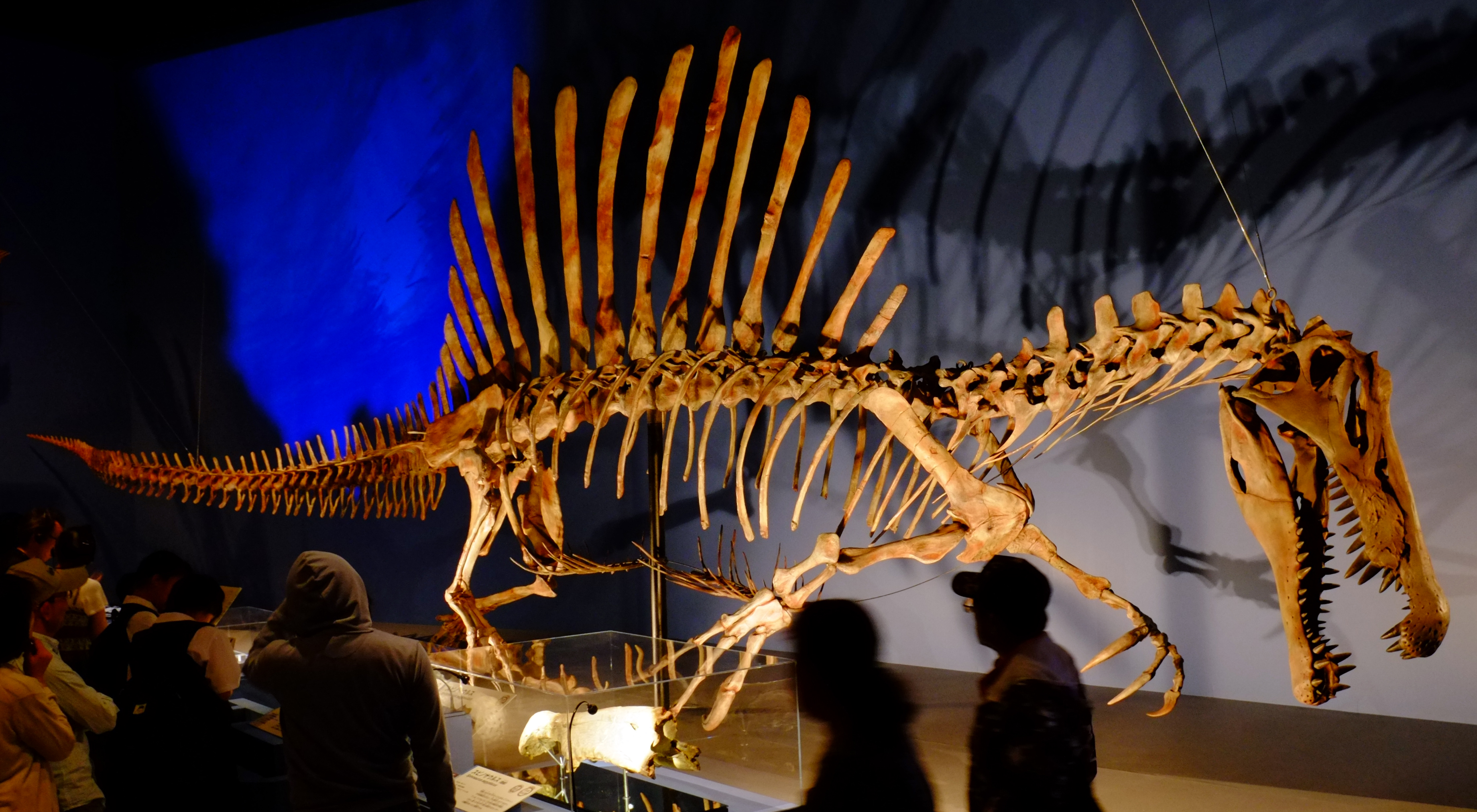 Spinosaurus in Japan Expo